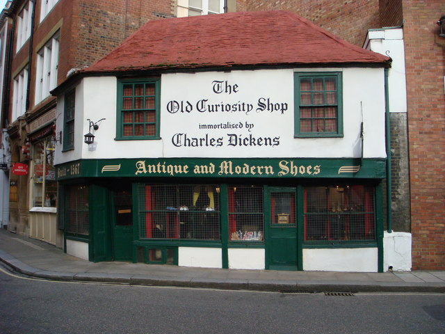 The Old Curiosity Shop Just off Lincoln's Inn Fields, remains the shop on which dickens modelled the Old Curiosity Shop in his book. Sadly, someone saw fit to cover the roof in red goo, rather than re-tiling it properly.